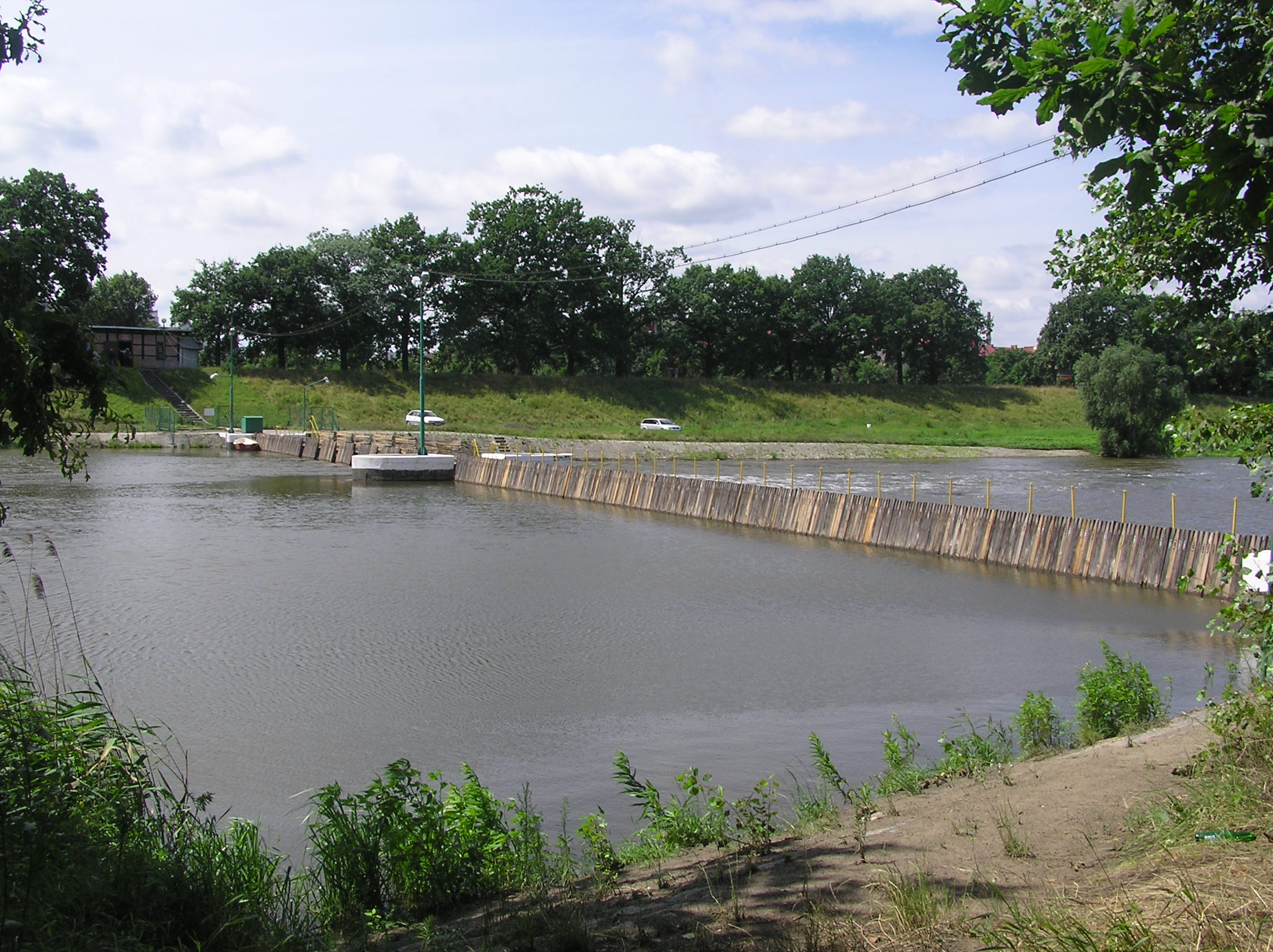 Wrocław, Psie Pole Weir